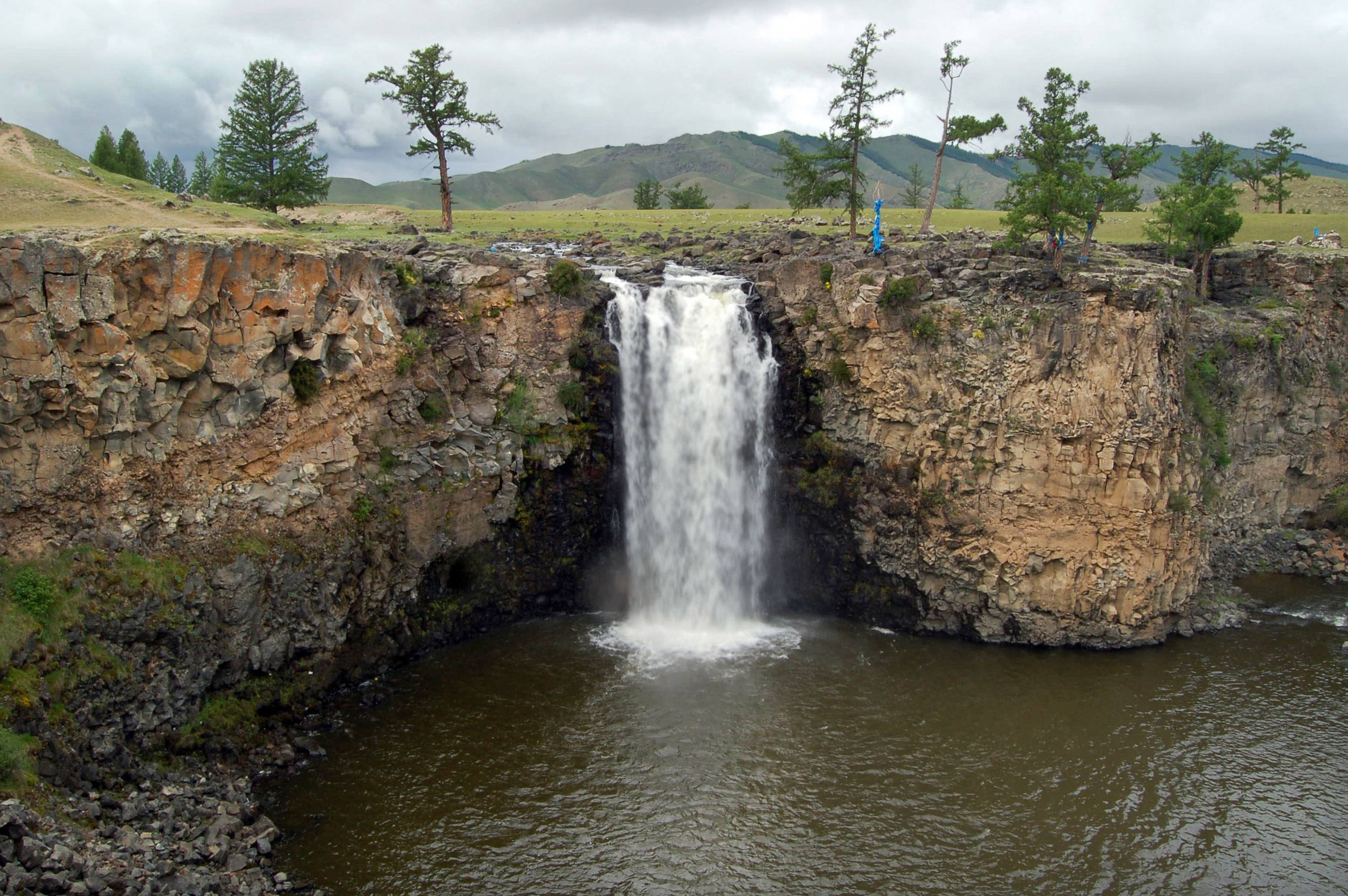 The Ulaan-Tsutgalan waterfall on the Ulaan Gol, near its discharge into the Orkhon River, Mongolia